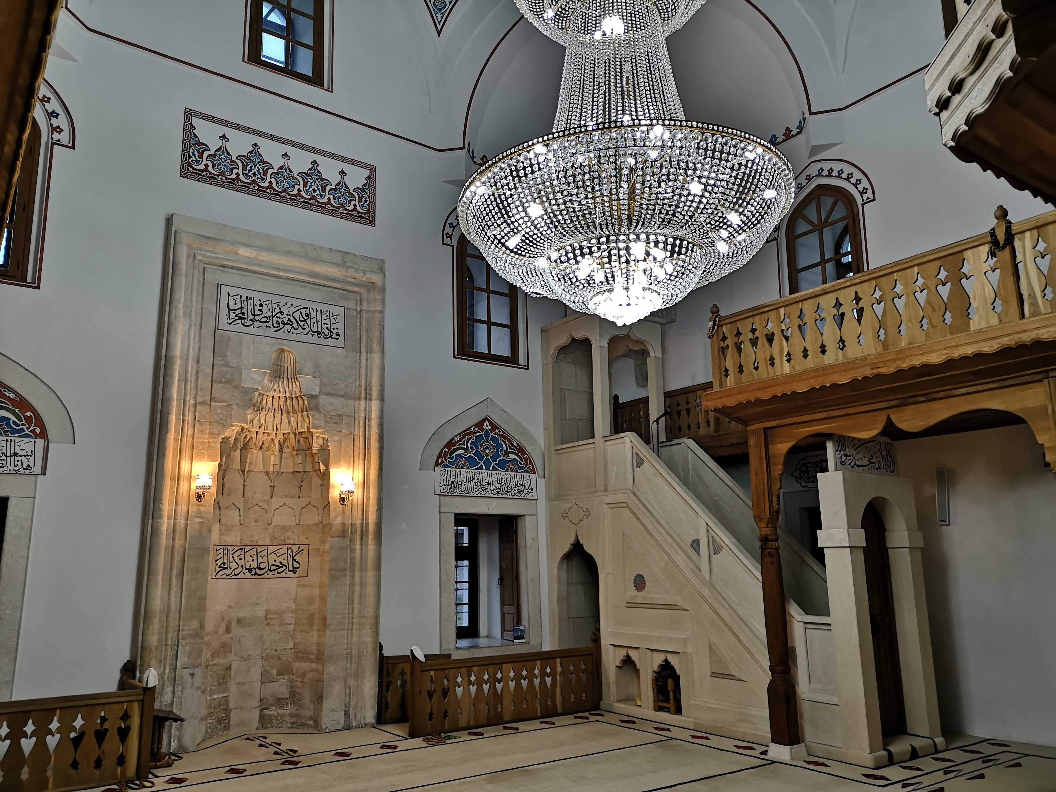 Interior of the Džudža Džaferova džamija mosque in Tomislavgrad